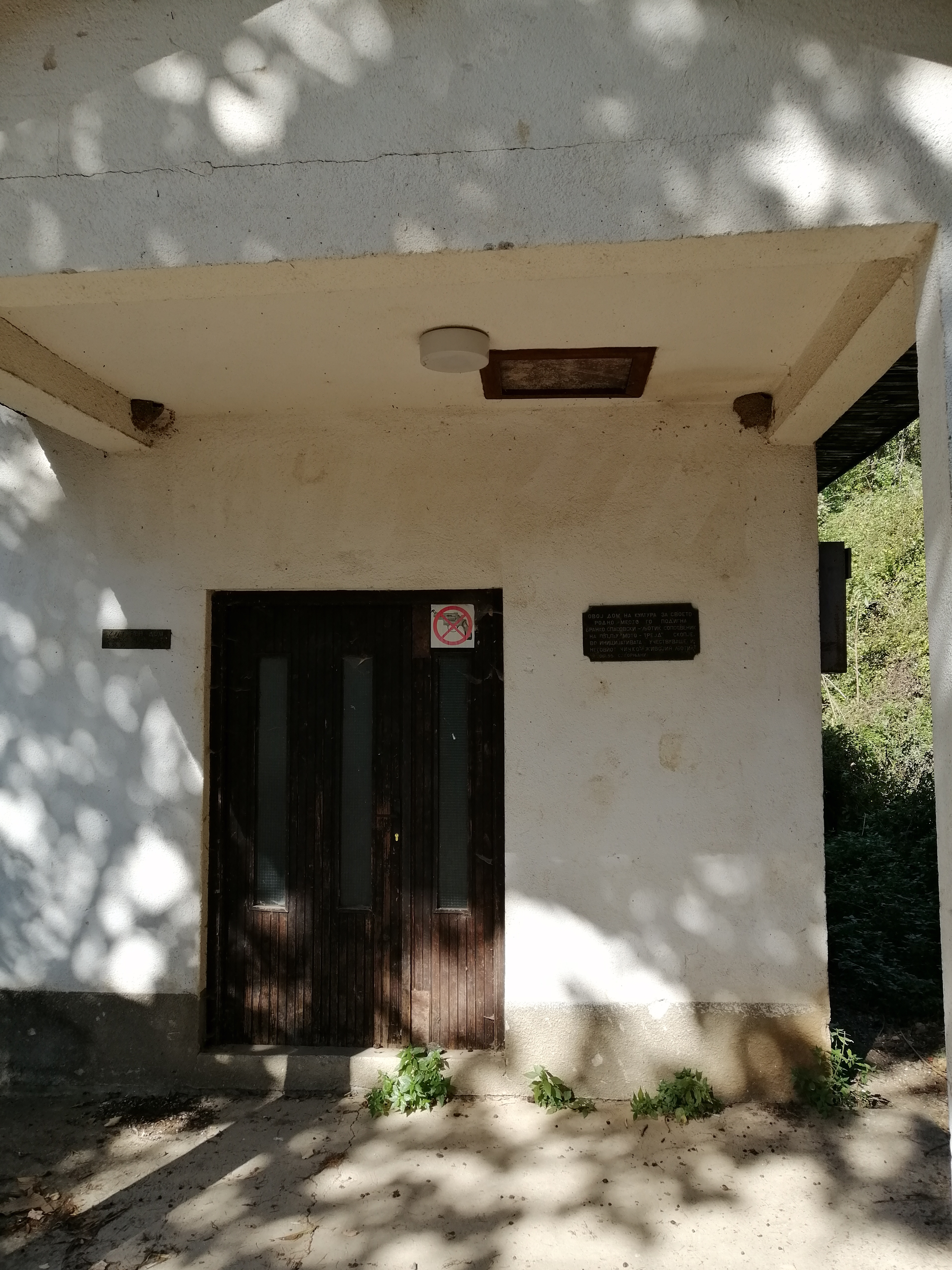 Cultural center in the village Gornjani, Macedonia